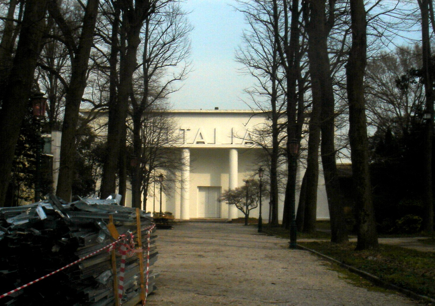 Venice, Italy: Biennale Garden, Padiglione Italiano.